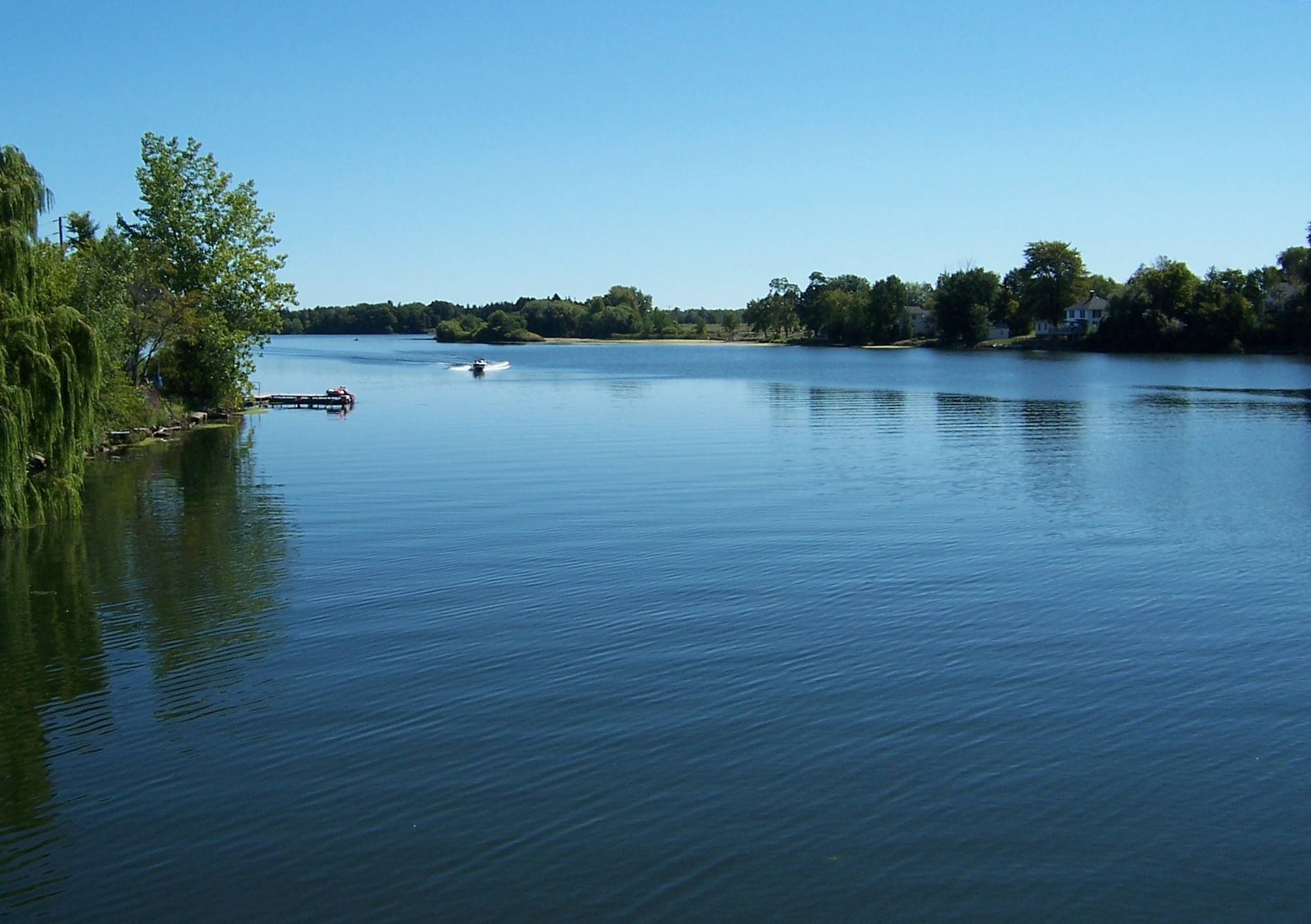 The Oak Orchard River in the town of Carlton, Orleans County, New York. This section of the river is upstream of the dam, forming what is known locally as "Lake Alice", in the hamlet of Waterport. The camera is facing roughly east, downstream, from the New York State Route 279 bridge.